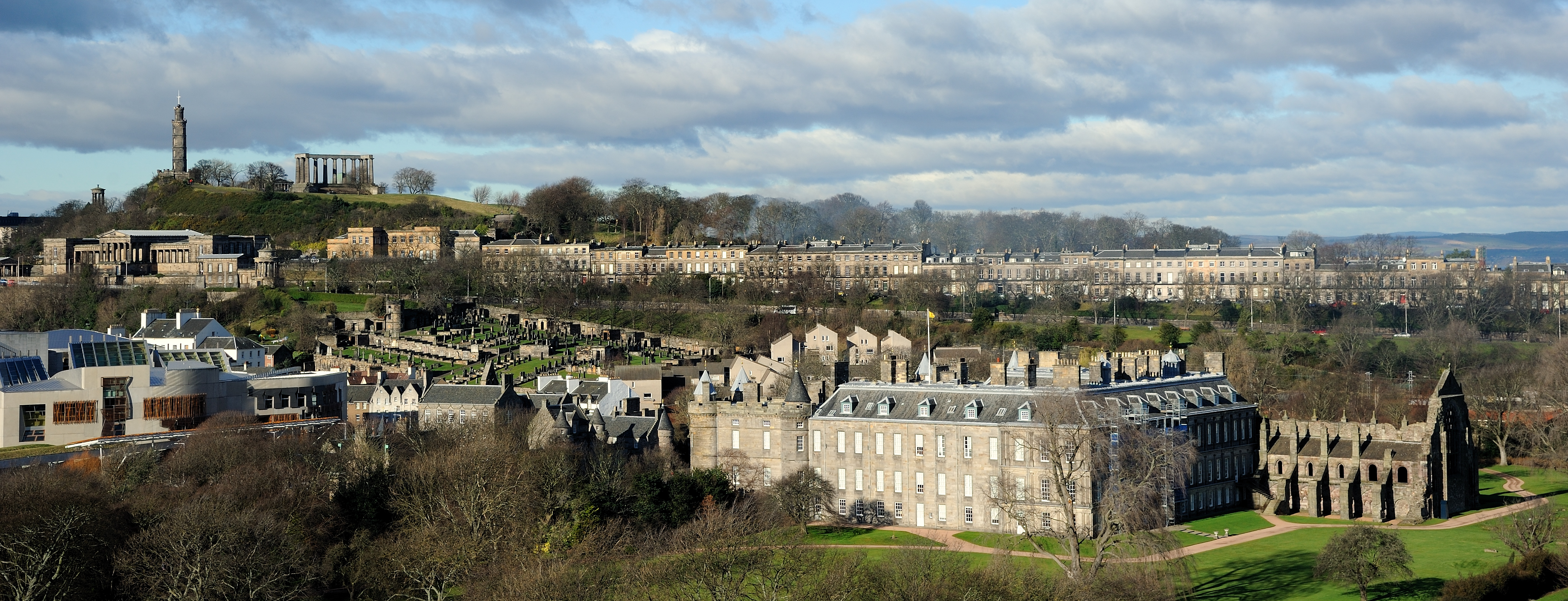 Taken from Holyrood Park with the Palace of Holyroodhouse , Holyrood Abbey and Calton Hill all in view as well architectual elements of the area.